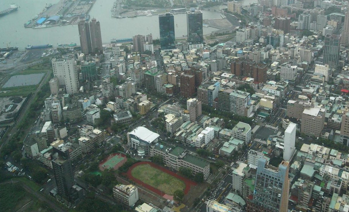 Lengngaliau